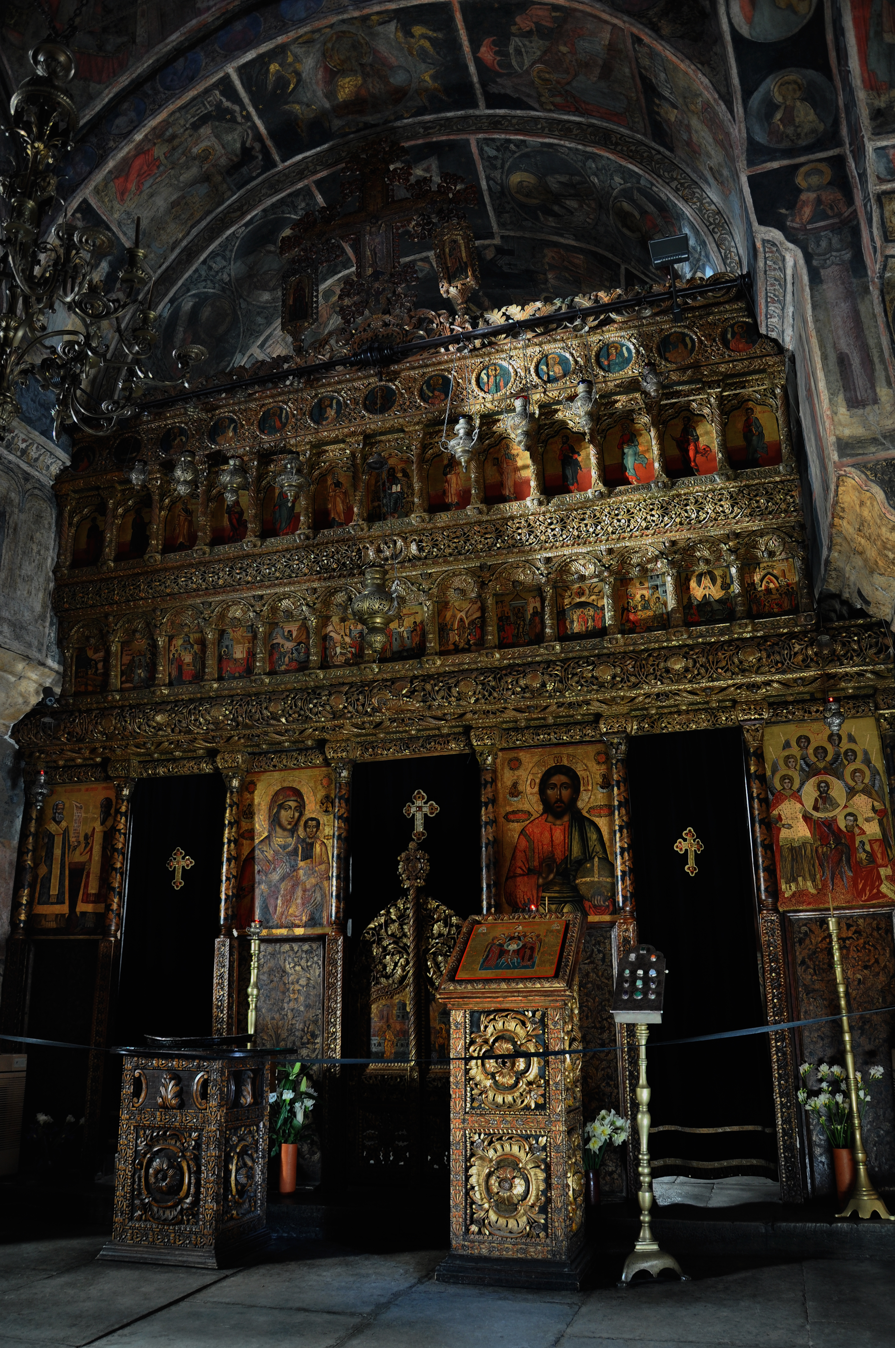 Stavropoleos Monastery, Bucharest, Romania